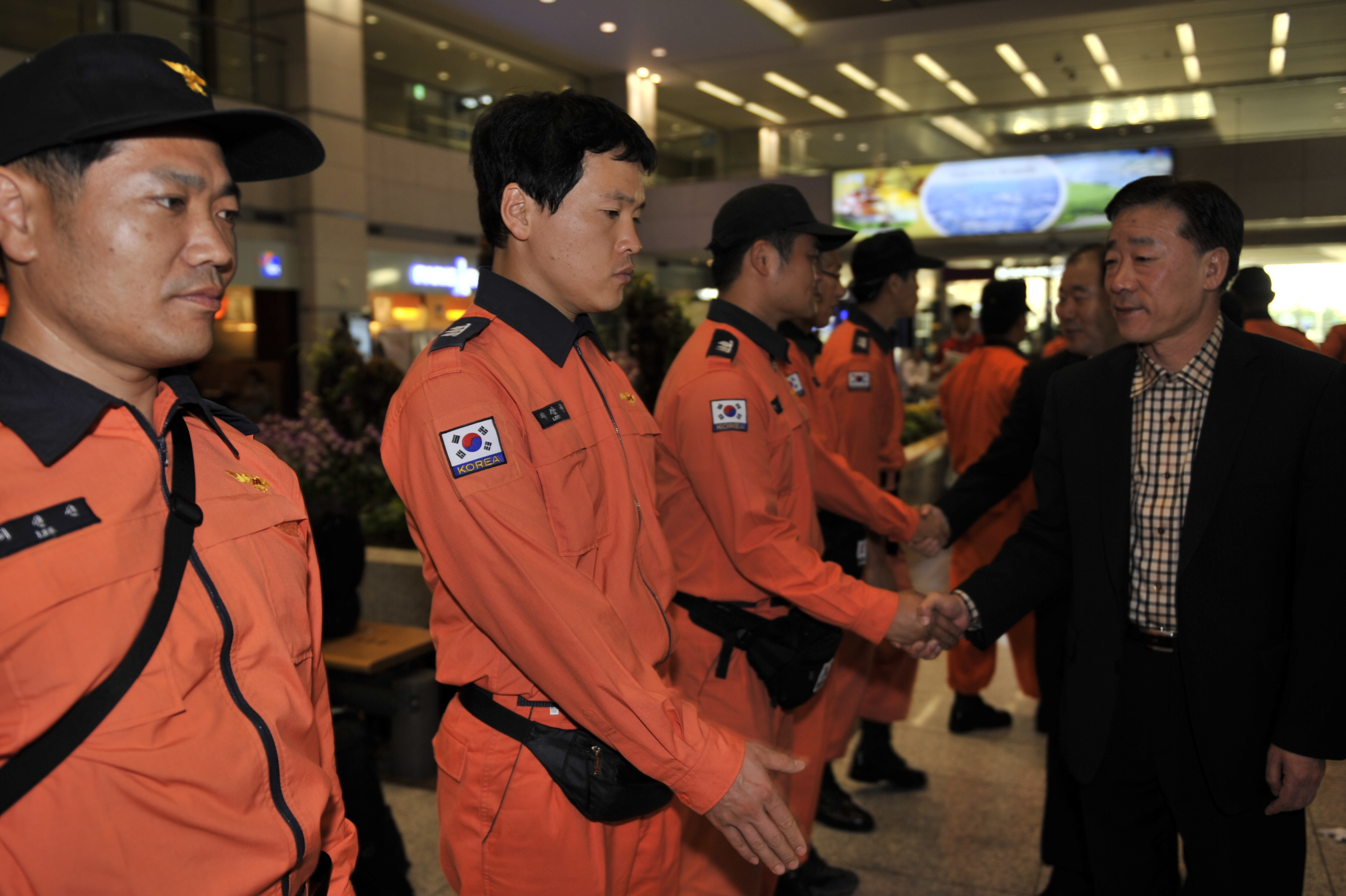 서울특별시 소방재난본부 소장 사진.photos of Seoul Metropolitan Fire&Disaster Headquarters.이 파일은 크리에이티브 커먼즈 저작자표시-동일조건변경허락 4.0 국제 라이선스로 배포됩니다. 단 특정할 수 있는 개인이 미디어 자료에 포함되어 있을 경우 사용 전에 소방재난본부 및 해당 인물의 승인을 받으셔야합니다. 감사합니다.